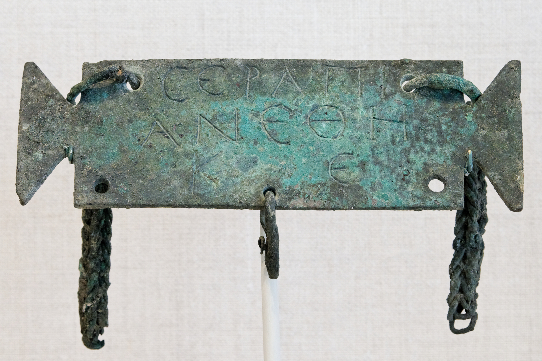 Small tabula ansata bearing a Greek votive inscription to Serapis. Roman artefact of the Imperial era.